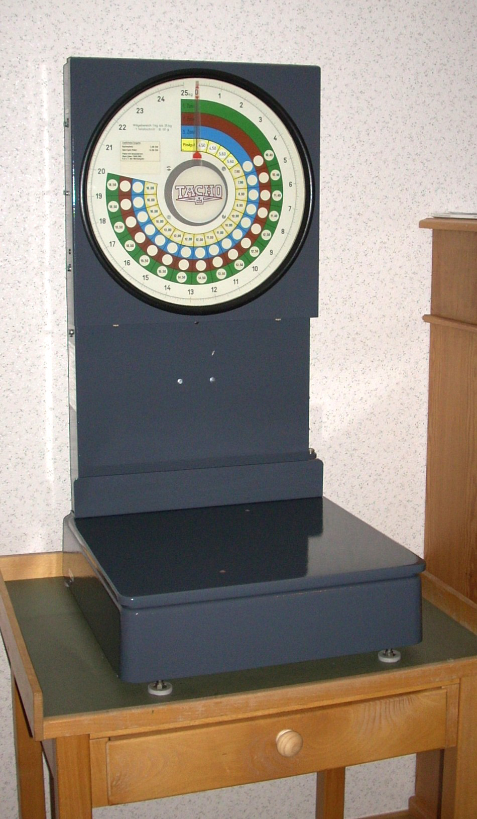 TACHO balance for use in post office, manufactured at Duisburg-Großenbaum, Germany, around 1971. Maximum load 25 kg, 1 d = 50 g. Dark grey laquer is new (originally light grey and dark grey metallic laquer).